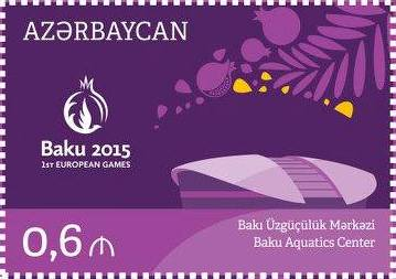 Coming soon - First European Games. Baku 2015.